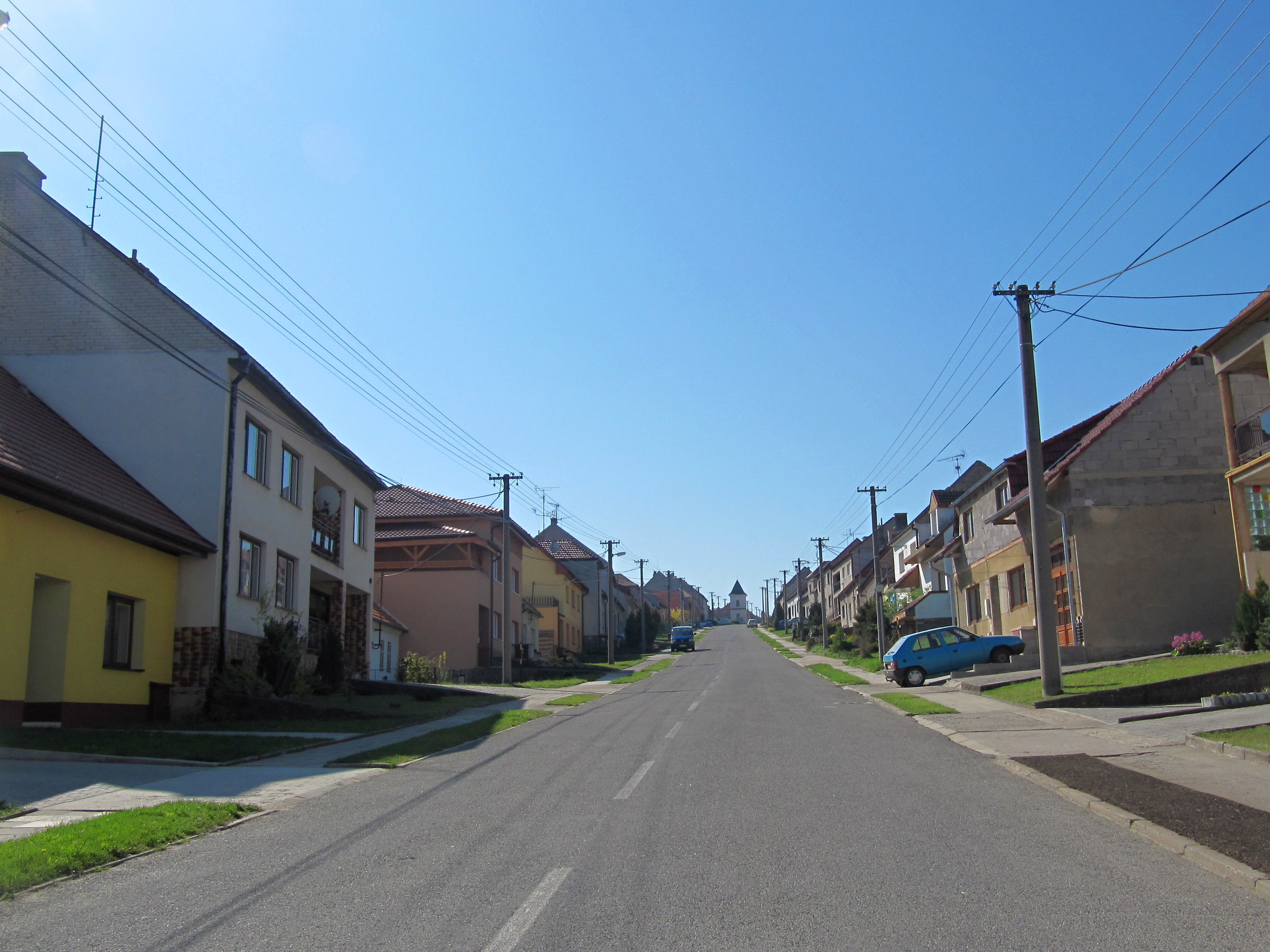 Suchov in Hodonín District, Czech Republic. Common.